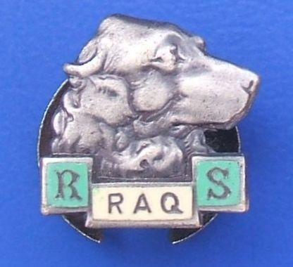 A small children’s fan club badge issued by the Romany Society. The badge shows an image of Romany’s dog called Raq and the club’s initials R.S. Raq was a blue roan (silver and grey) English cocker spaniel. The Romany Society was set up in memory of Romany after his death in 1943 and continued until 1965. A Romany appreciation society was re-established in 1996 with Terry Waite as patron and Mrs Romany Watt (Romany’s daughter) and is still active. Romany was a pseudonym of Rev. George Bramwell Evans (1884-1943) who was a well known author of wildlife books that included the ‘Out with Romany’ series and wrote many newspaper articles about the countryside and its wildlife too. His works were aimed at educating children and had a considerable following. From 1932 to 1943 he had his own radio show called ‘Out with Romany’ on the BBC Children’s Hour and always accompanied by his travel companion, Raq. References: Romany Appreciation Society website biographical article on George Bramwell Evans Romany’s involvement with the BBC and Terry Waite Enamels: 2 (green & white). Finish: n/a. Material: White metal. Fixer: Buttonhole (horseshoe shaped clasp). Size: 5/8” across x 5/8” down (about 16mm x 16mm). Process: Die-stamped. Maker: No maker’s name or mark.